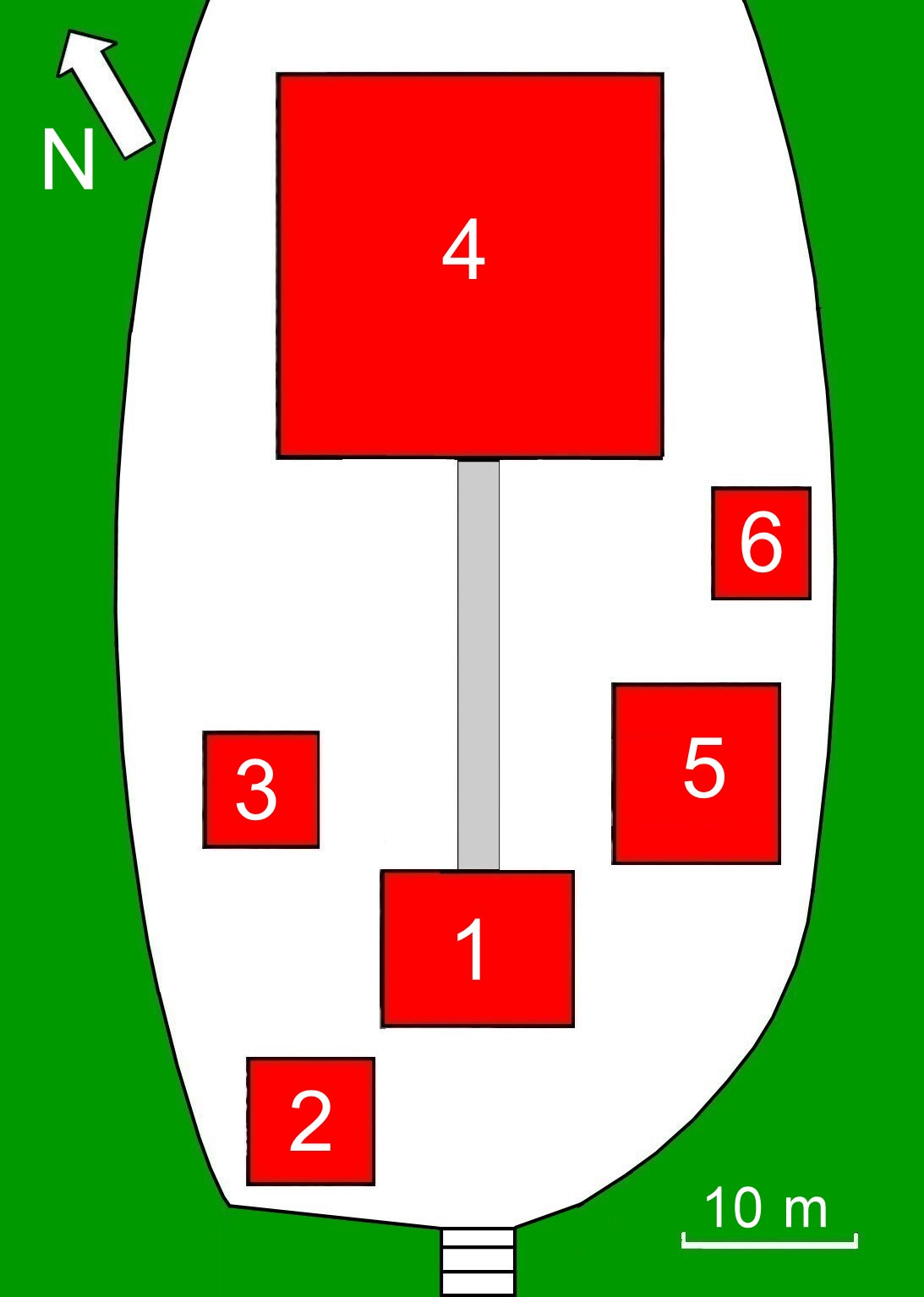 Layout of Sanmyô-ji (Mashiko) Tochigi Pref. Japan